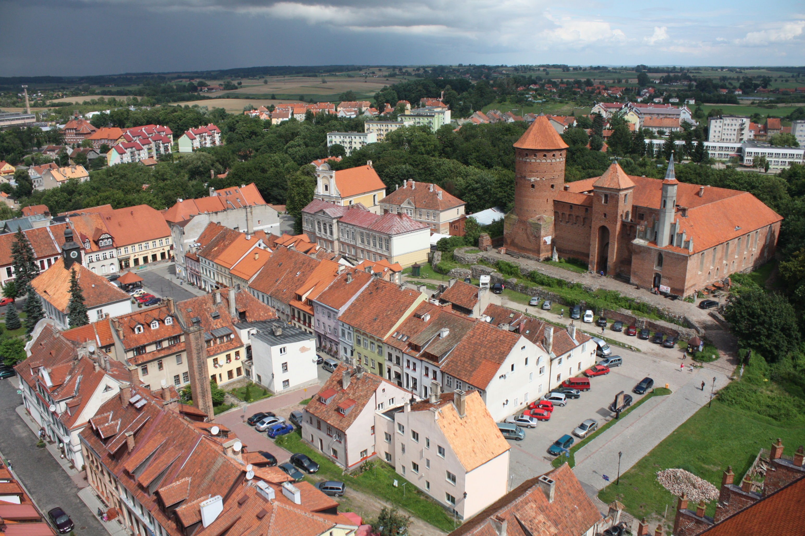 This photo of Warmian-Masurian Voivodeship was taken during Wikiexpedition 2012 set up by Wikimedia Polska Association.You can see all photographs in category Wikiekspedycja 2012. The making of this document was supported by Wikimedia Polska.